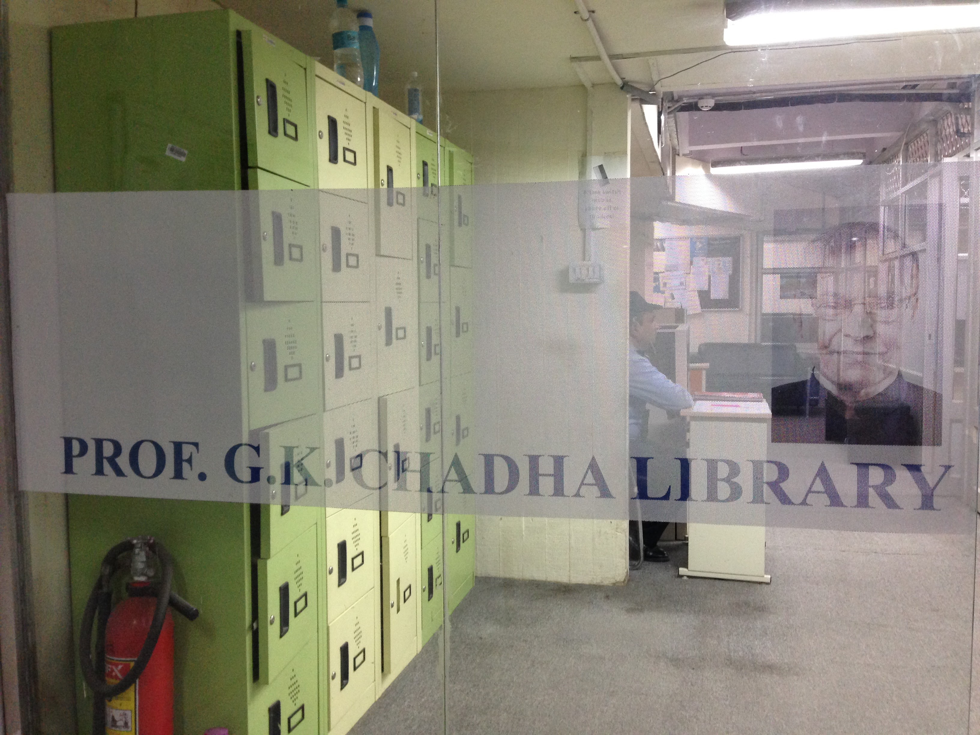 Entry gate of the Library